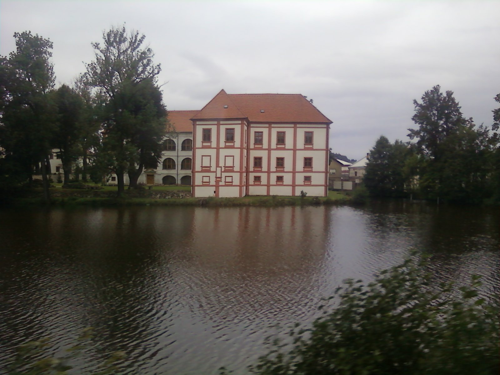 pohled přes Zámecký rybník